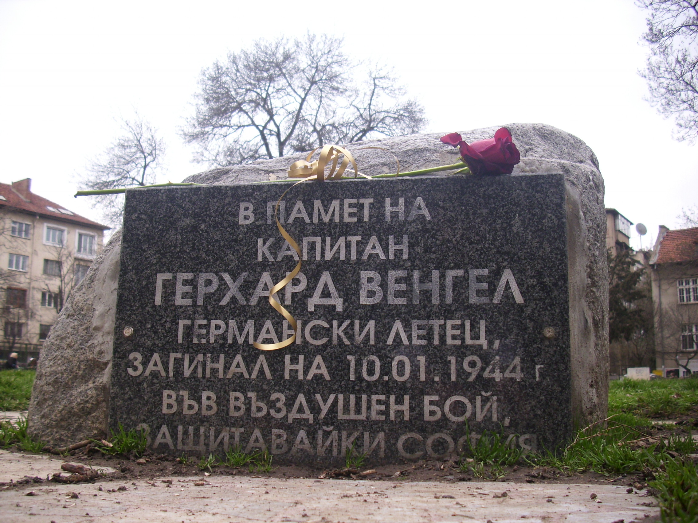 Gerhard Wengel memorial slab in Madara garden, Sofia